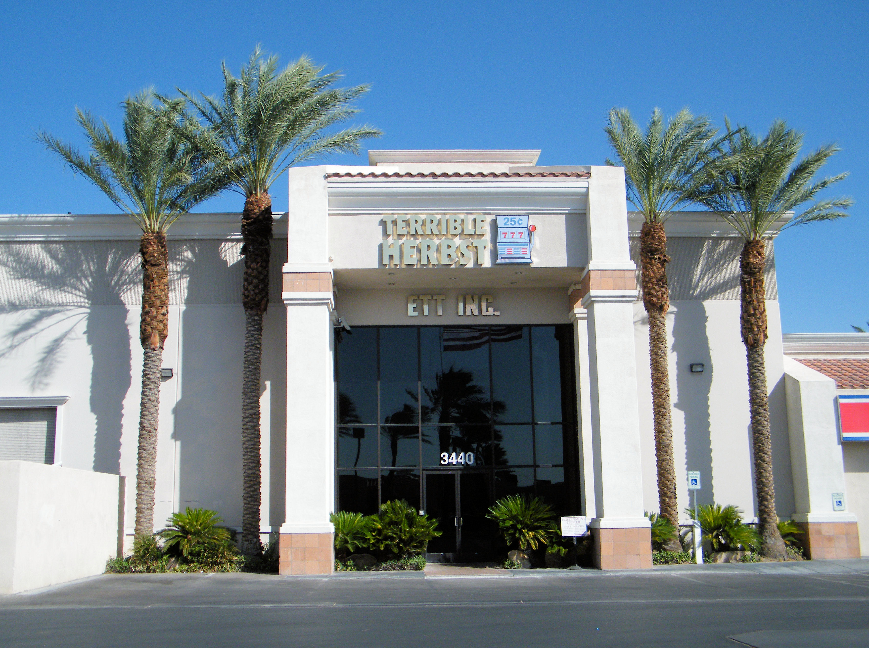 Terrible Herbst headquarters at 3440 Russell Road in Las Vegas, Nevada. This building is also home to the headquarters of Herbst Gaming and ETT, Inc. (the Herbst family's slot route subsidiary). Photographed by user Coolcaesar on the morning of October 4, 2009.